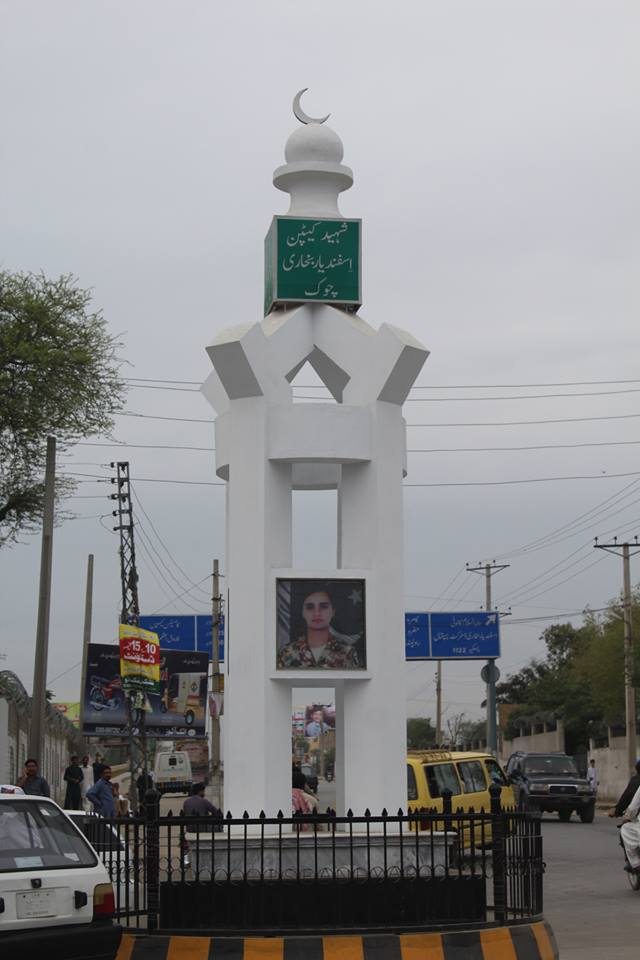 Monument of Asfandyar Bukhari